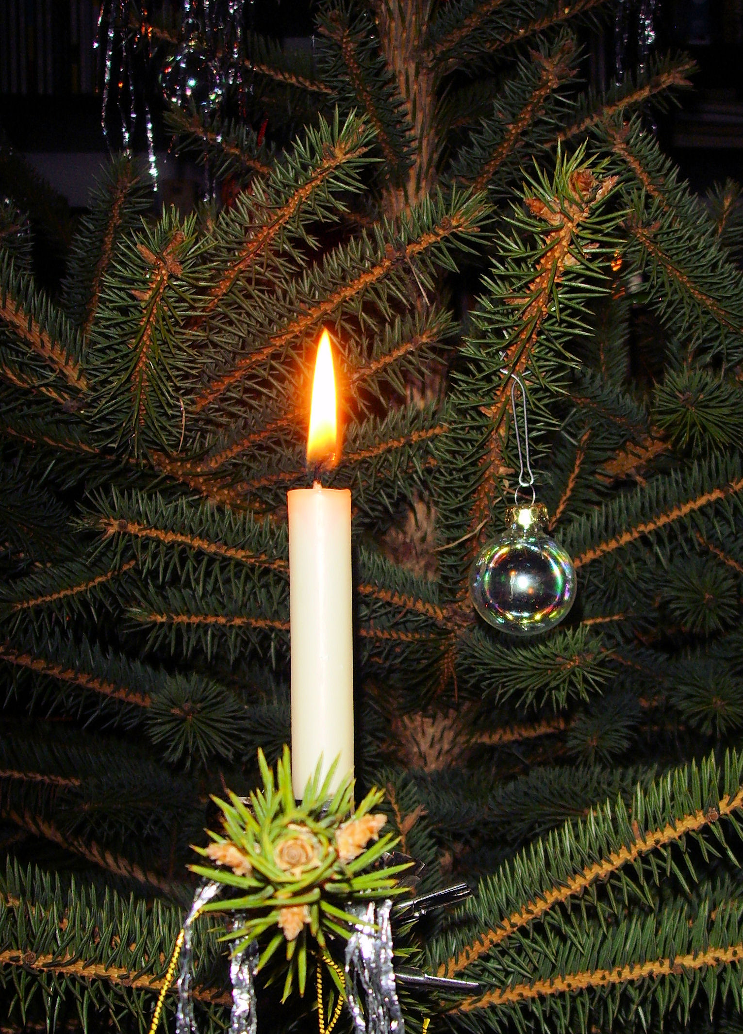 Candle on a German Christmas tree